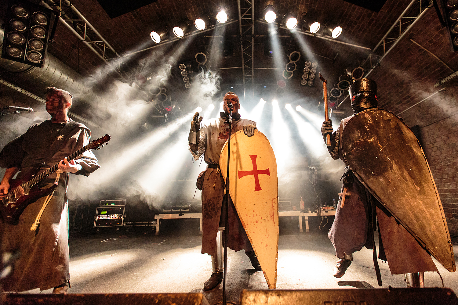 Picture of Heimataerde at the Matrix Bochum (Germany) 12/2016. Left to right: Jacques de Périgord, Ashlar von Megalon, Ignatius von Schneeberg